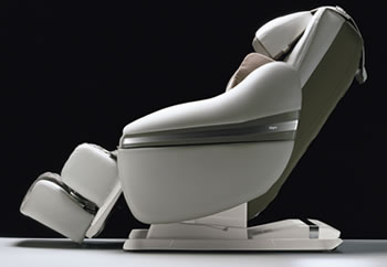 japanese A massagechair